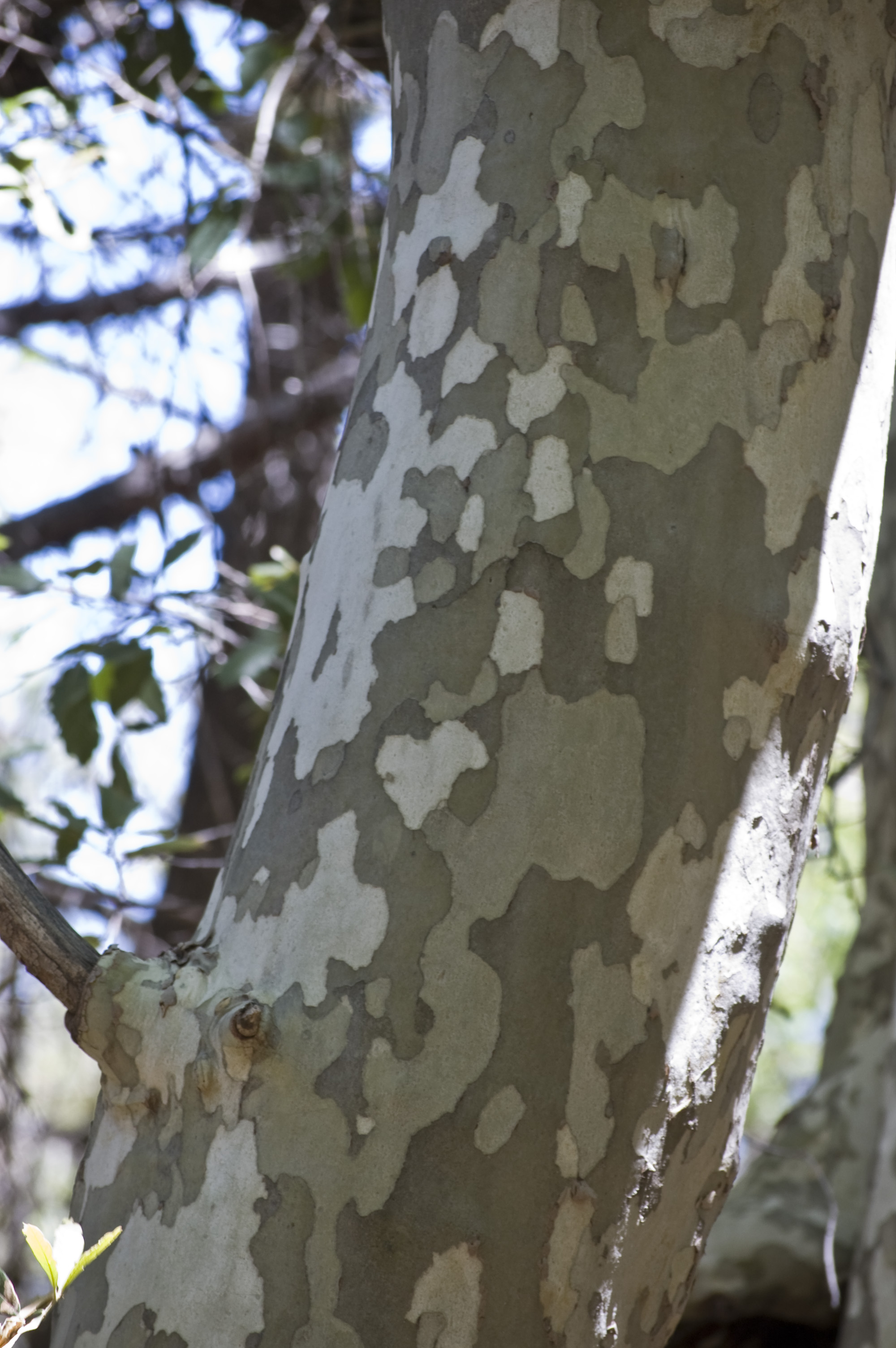 Platanus wrightii bark, Madera Canyon, Coronado National Forest, Arizona, 31°42'56"N 110°52'36"W, 1600 m altitude.